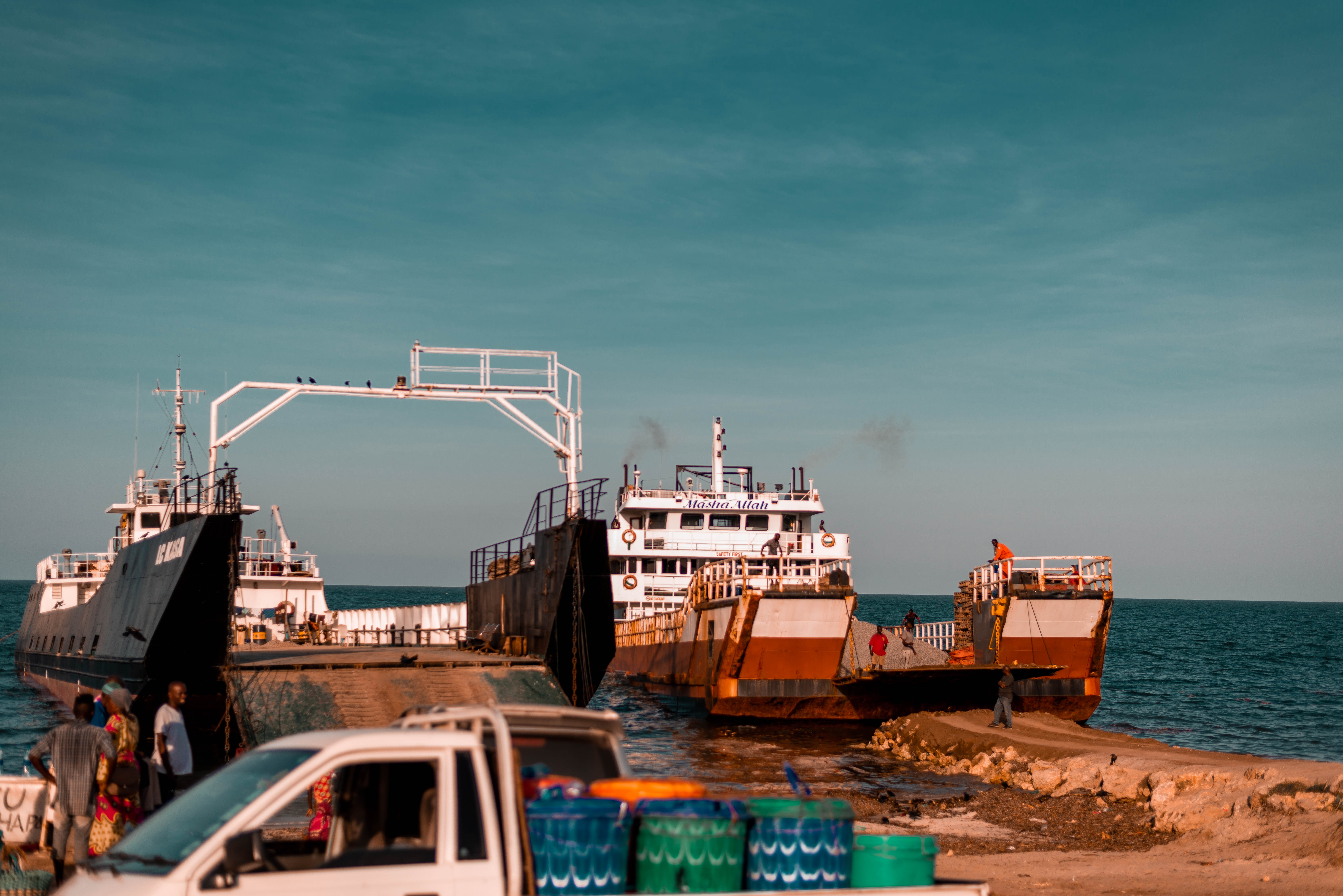 This is an image with the theme "Africa on the Move or Transport" from: Tanzania